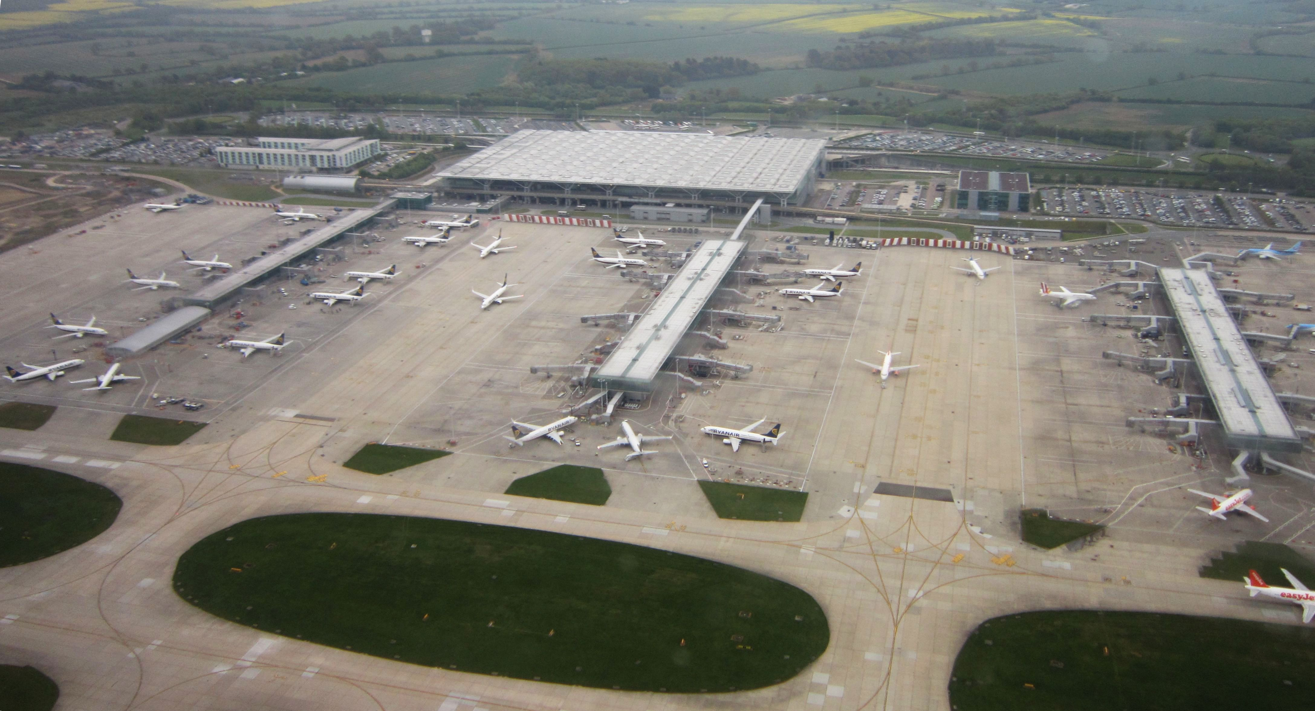 London Stansted Airport main terminal building and the three satellite buildings in which the gates are located